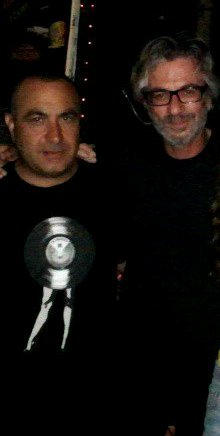 Shlomi Braha (left) and Yuval Banai, members of the famous Israeli rock band Mashina. July, 2011.